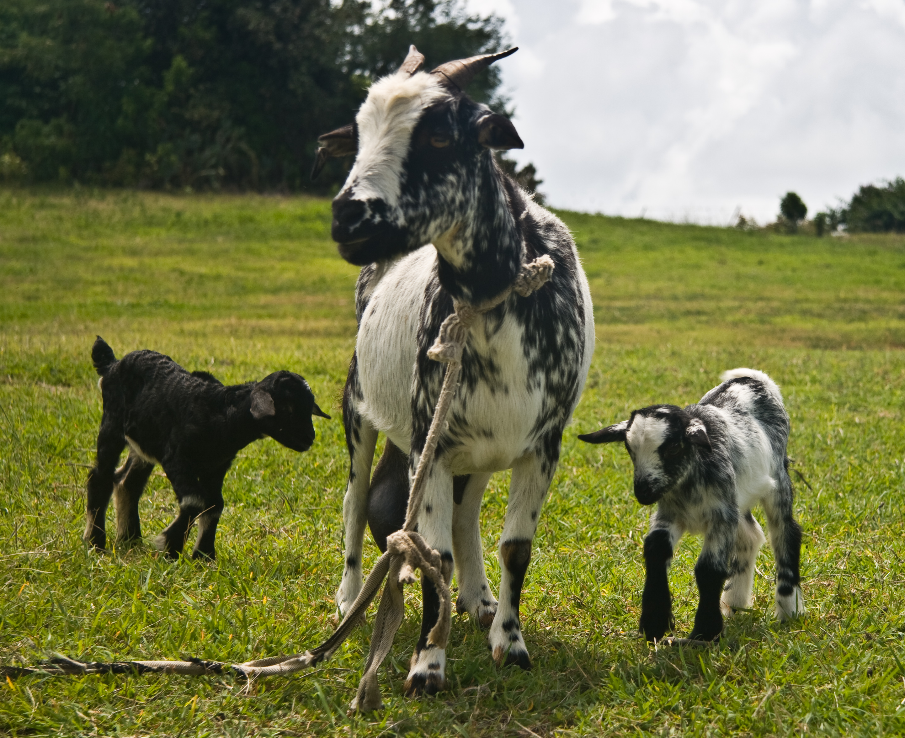 Goat and kids on Mayreau in the Grenadines.